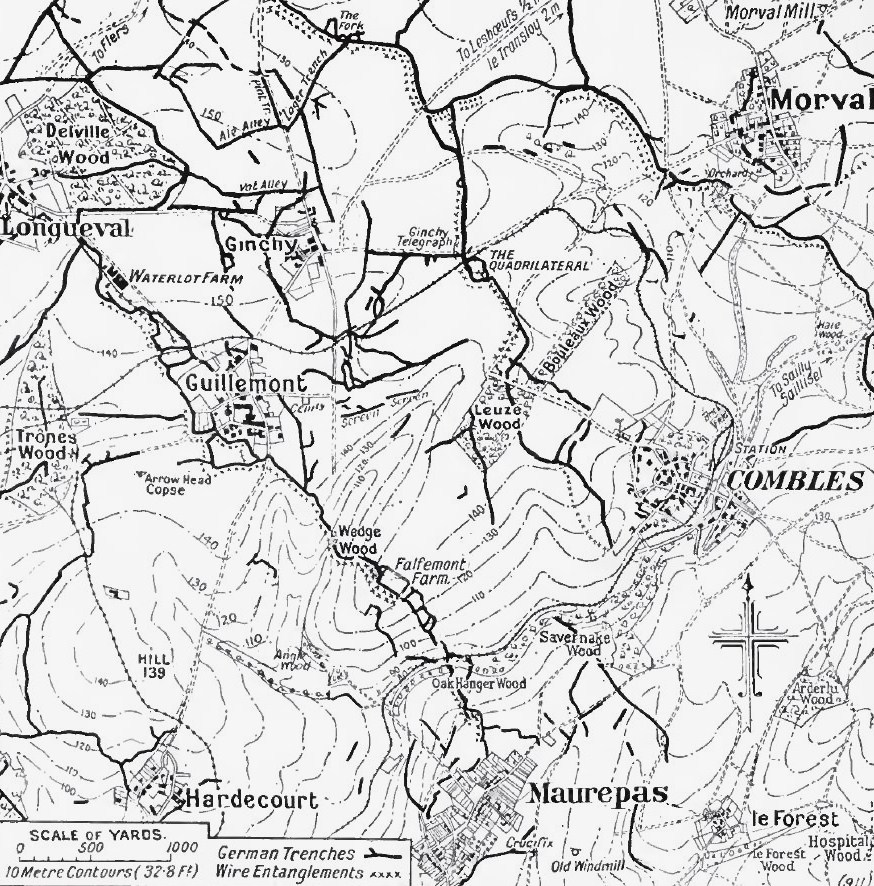 Map of the Somme area from Longueval to Combles, 1916